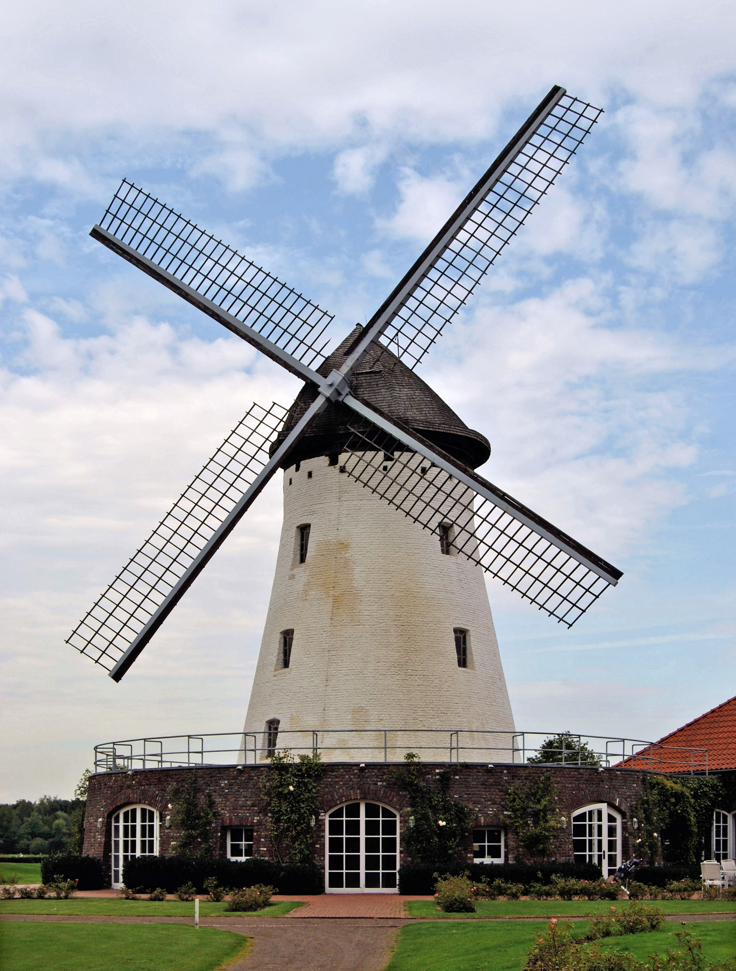 Building in Krefeld, more precise information will follow This photograph was taken with a Nikon D3000 This image shows a heritage building in Germany, located in the North Rhine-Westphalian city Krefeld (no. 379).